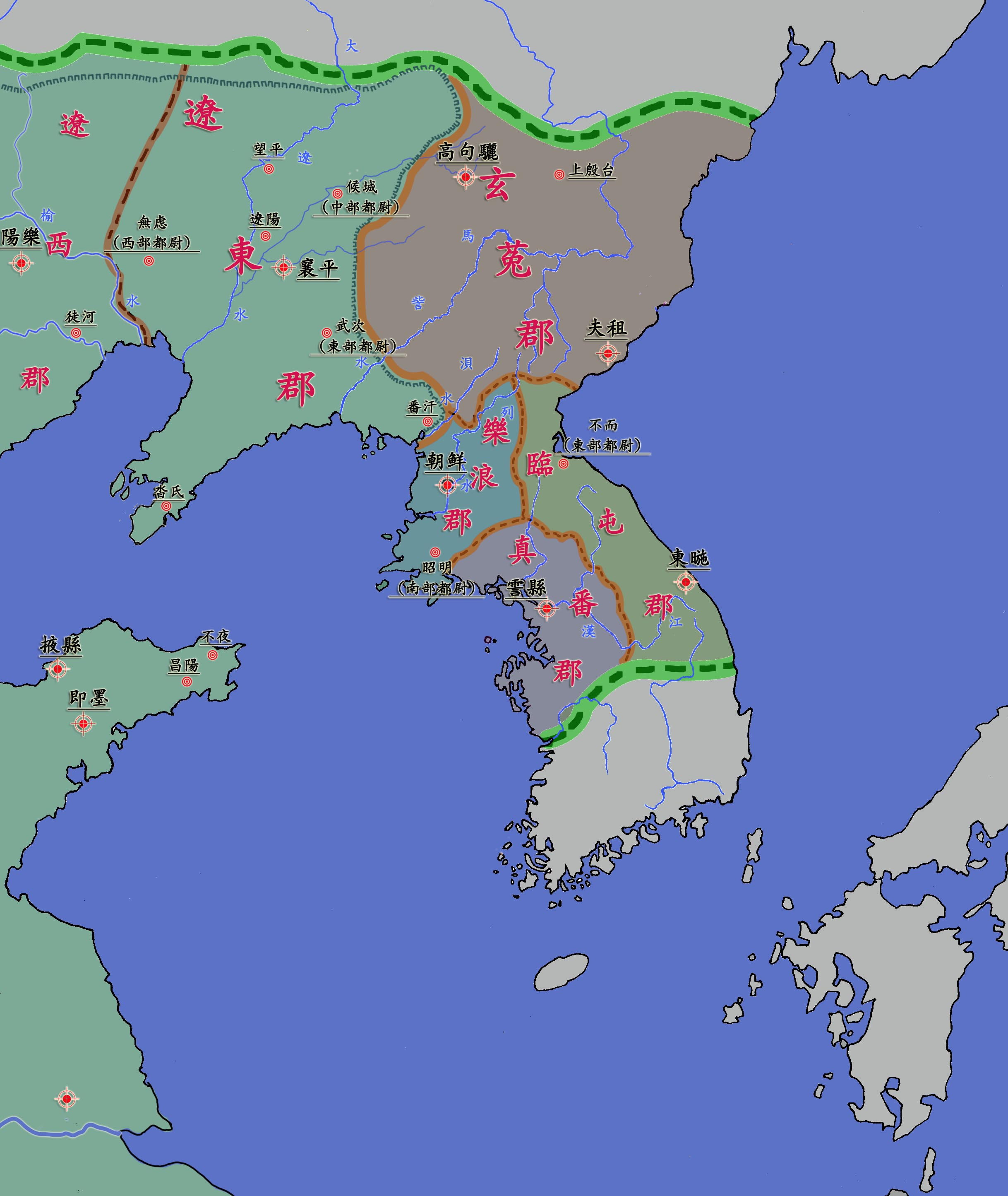 Four Commanderies of Han